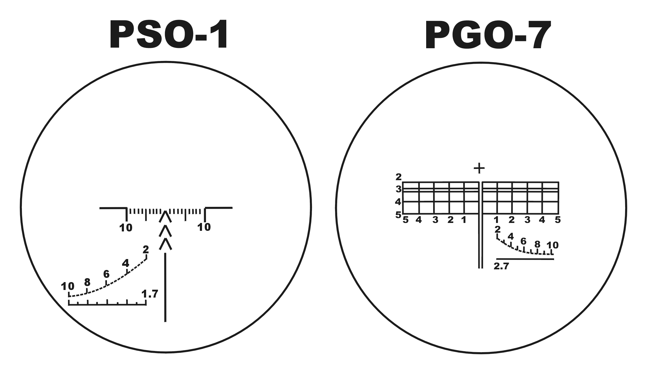 PSO-1 and PGO-7 Reticle Scheme